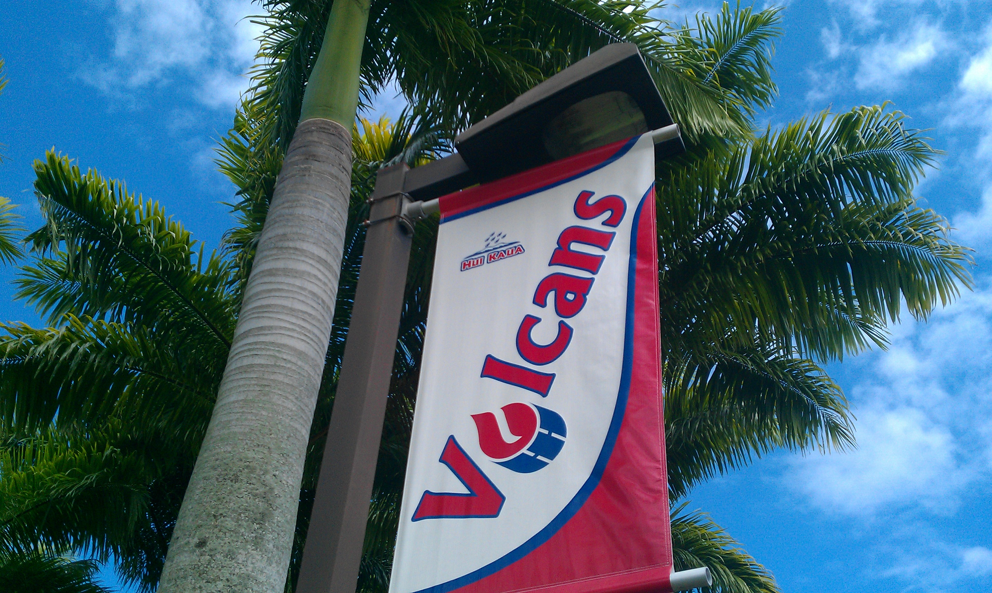 Vulcan Mascot Banner